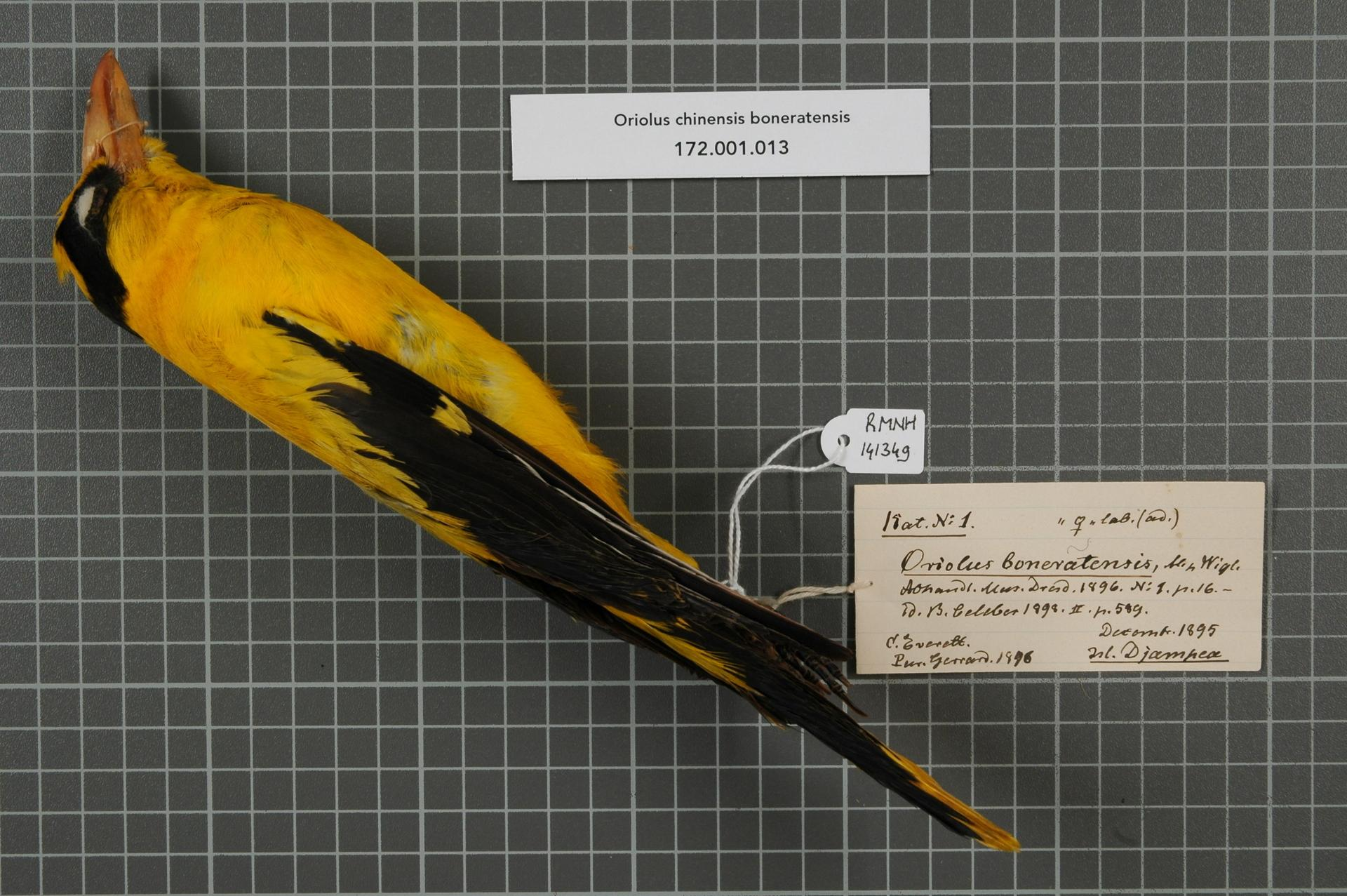 Oriolus chinensis boneratensis Meyer and Wiglesworth, 1896